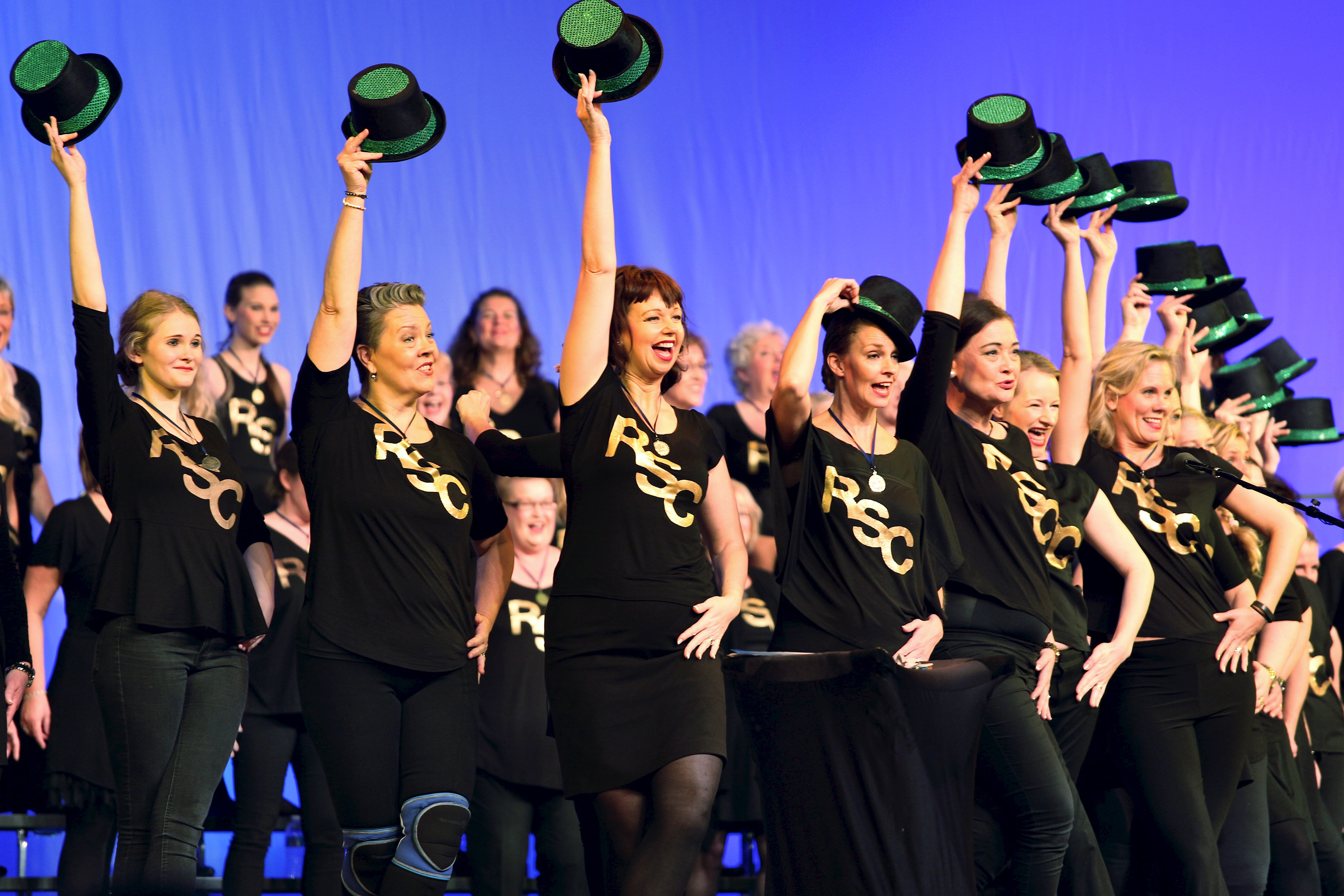 Reigning champions Rönninge Show Chorus performing at the Sweet Adelines International competition in Baltimore, Maryland